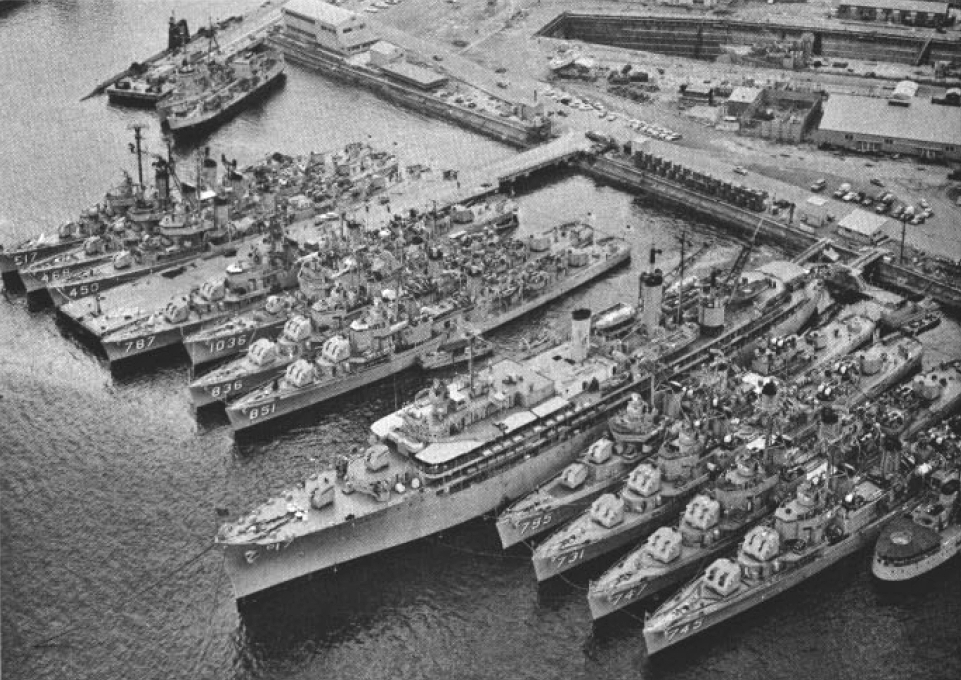 The U.S. Navy destroyer tender USS Piedmont (AD-17), with destroyers alongside at Yokosuka, Japan. The photo was taken before any of the destroyers entered the FRAM moderization program. Ships moored at the pier are (l-r): USS Walker (DD-517), USS Taylor (DD-468), USS O'Bannon (DD-450), USS James E. Kyes (DD-787), USS McMorris (DE-1036), USS George K. MacKenzie (DD-836) and USS Rupertus (DD-851). The ships on Piedmont's port side are (from inboard to outboard: USS Preston (DD-795), USS Maddox (DD-731), USS Samuel N. Moore (DD-747) and USS Brush (DD-745).